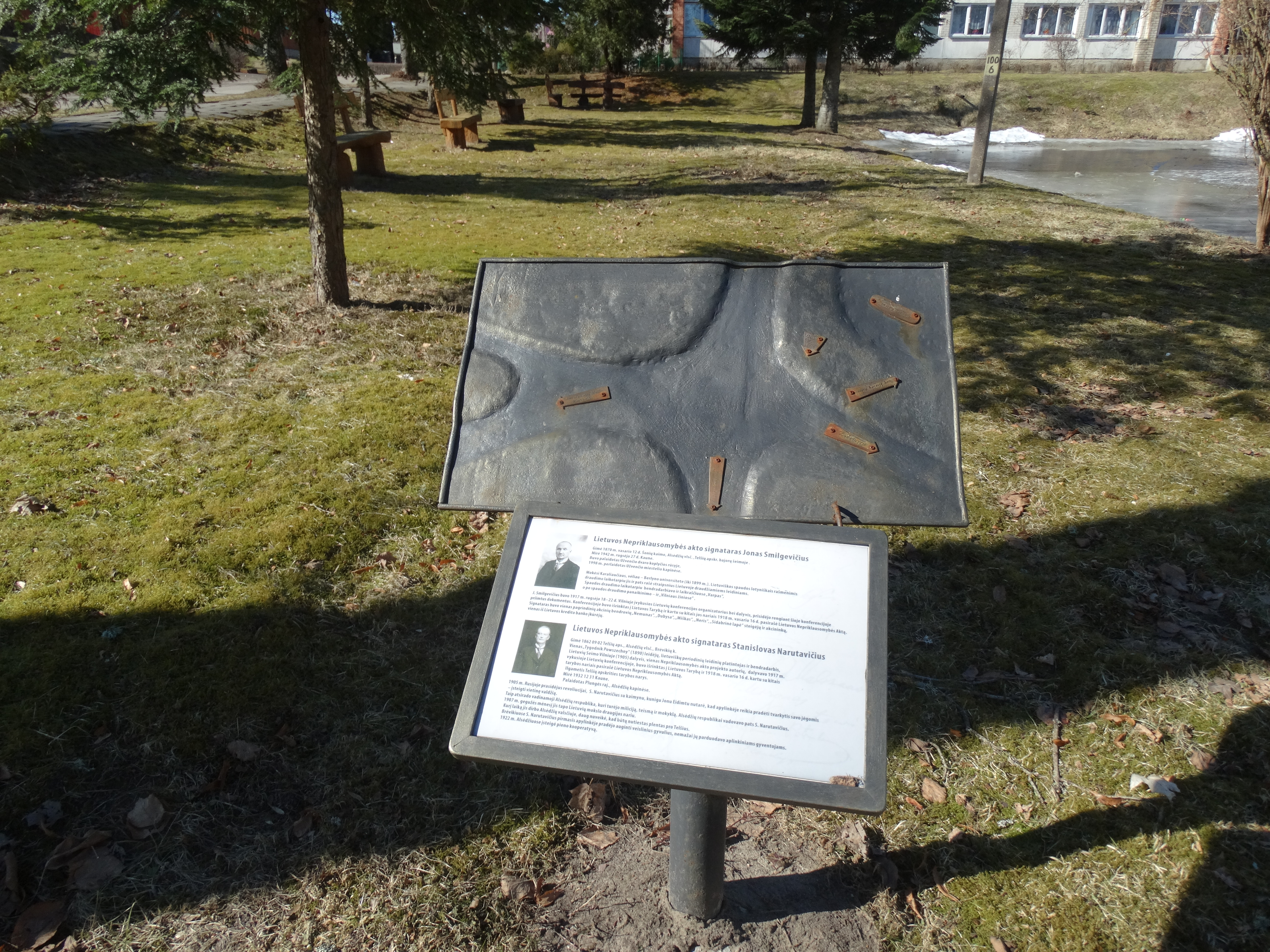 Commemorative board, Alsėdžiai, Plungė district, Lithuania